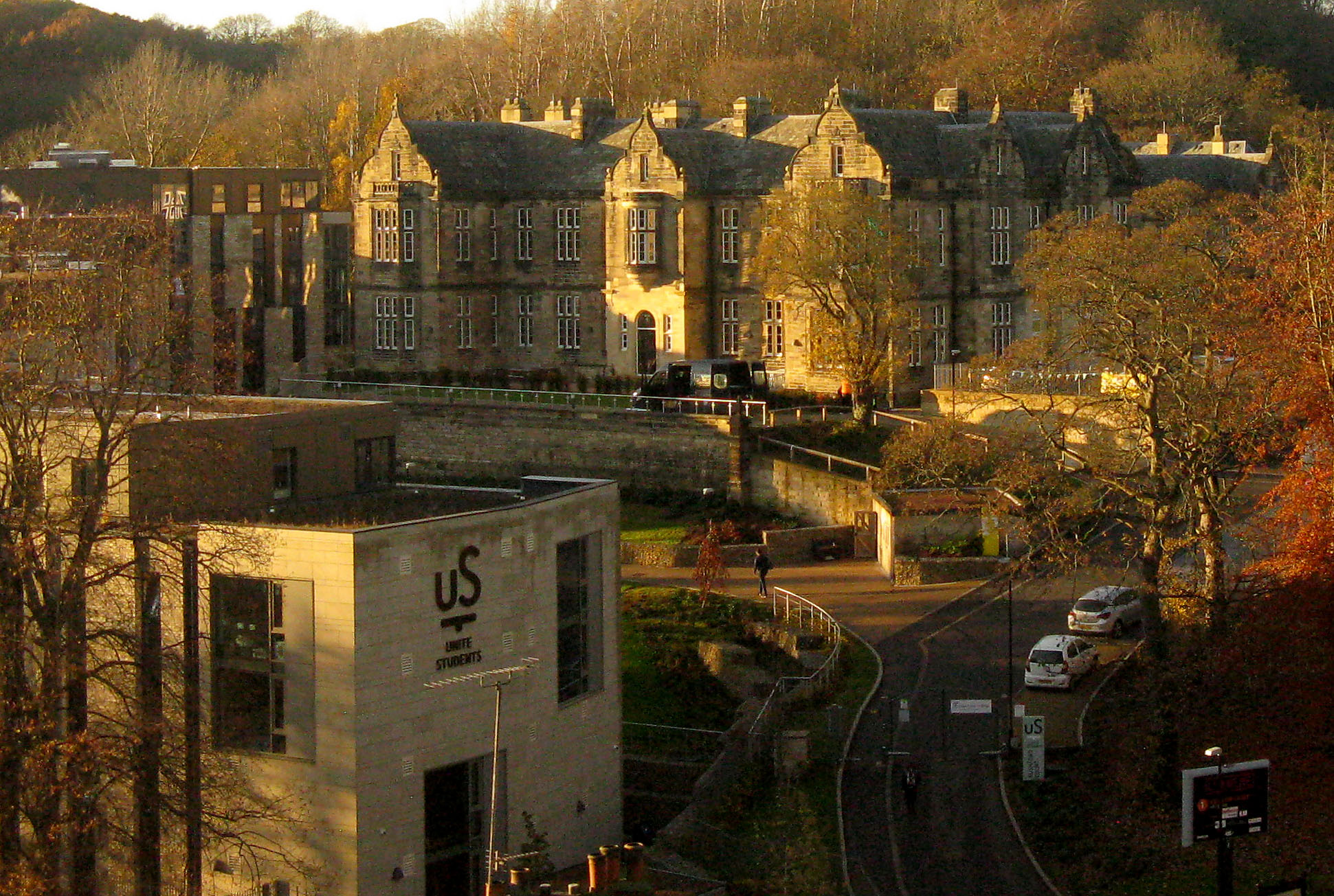 The former County Hospital, Durham, in 2019 after conversion to student accommodation (cropped to show main subject and levels adjusted)